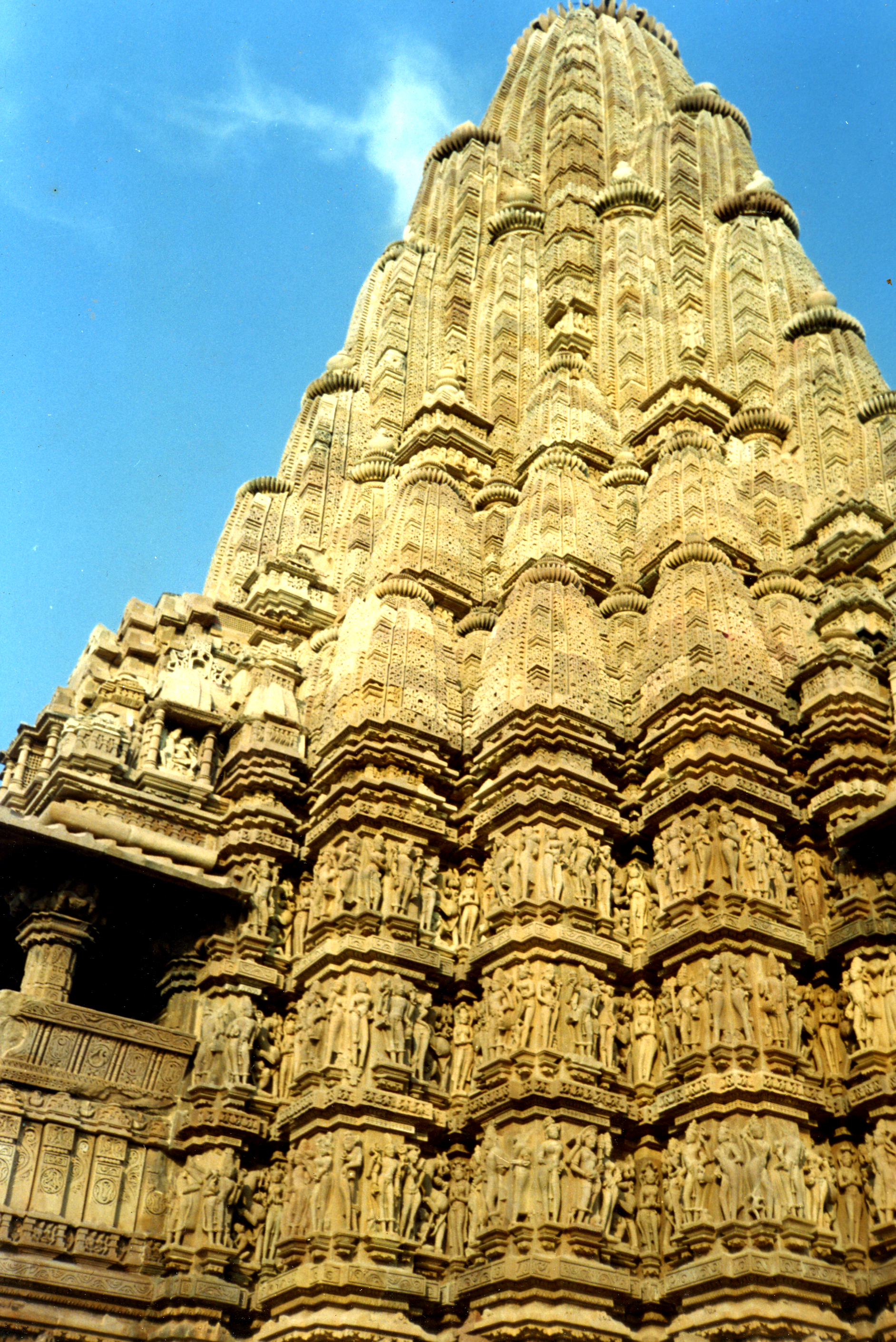 Shikhara in December 1999.